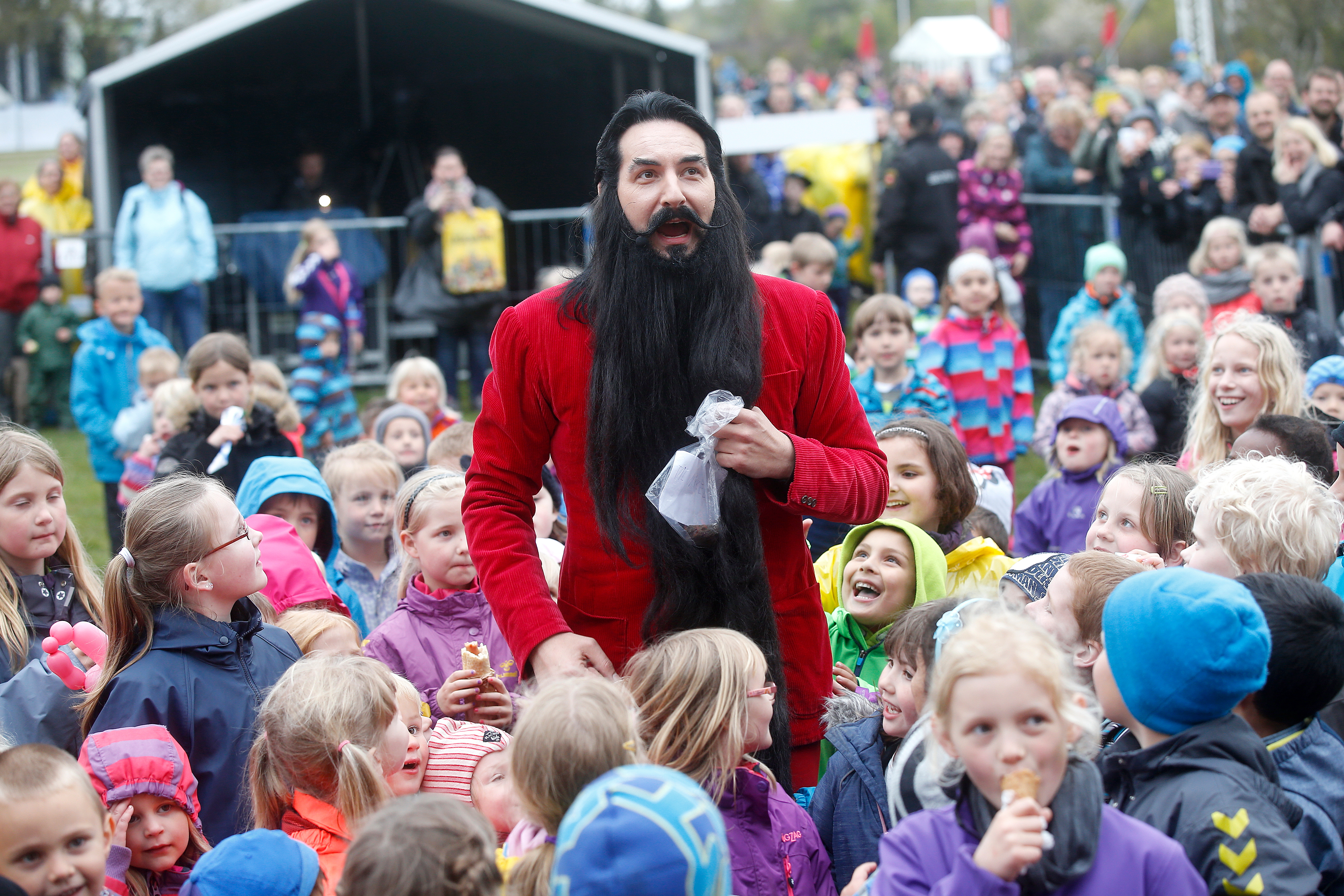 Mikkel Lomborg as his character Hr. Skæg in the amusement park Legoland Billund Resort in Denmark.